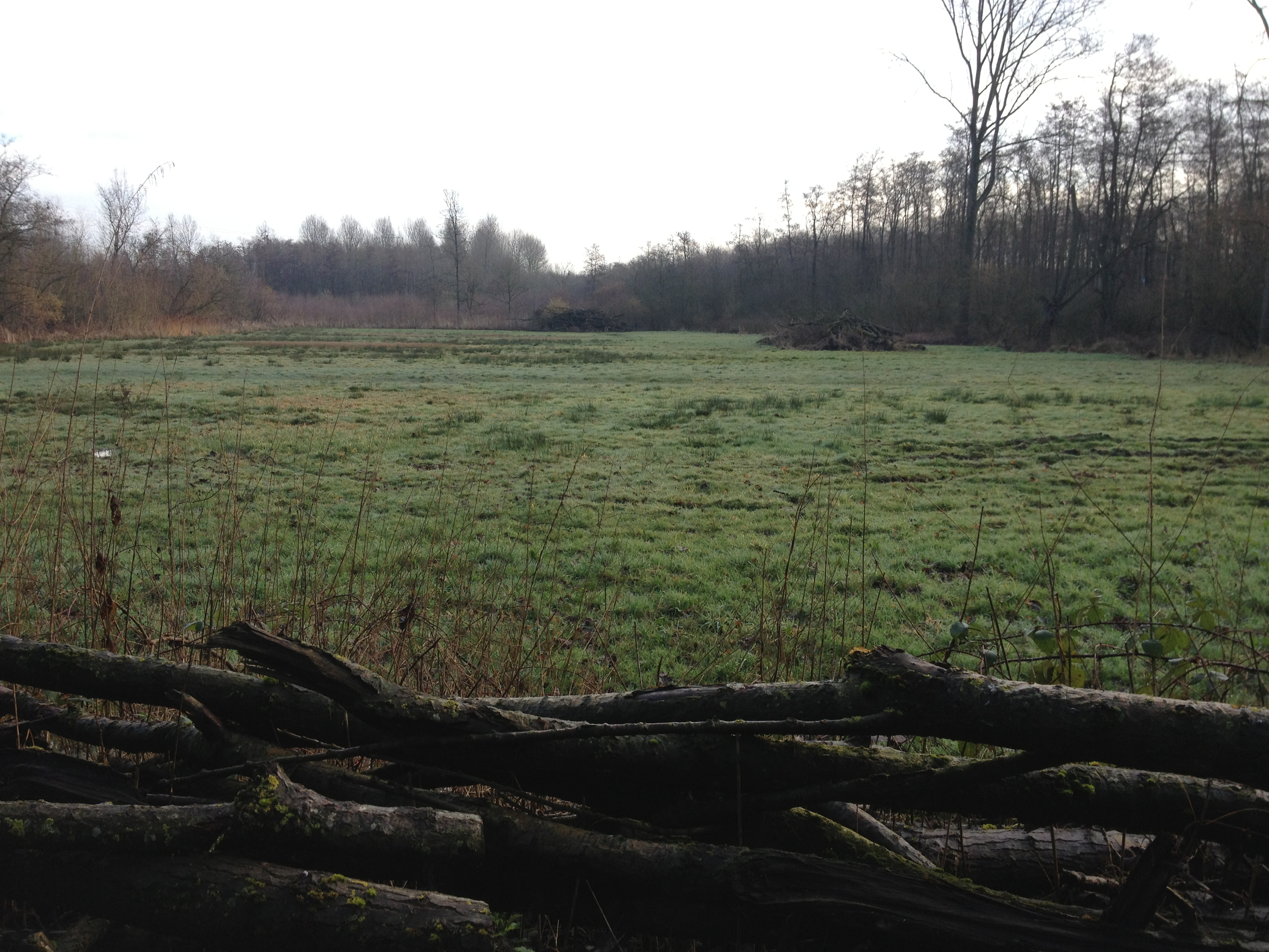 Weide in het Beverbos